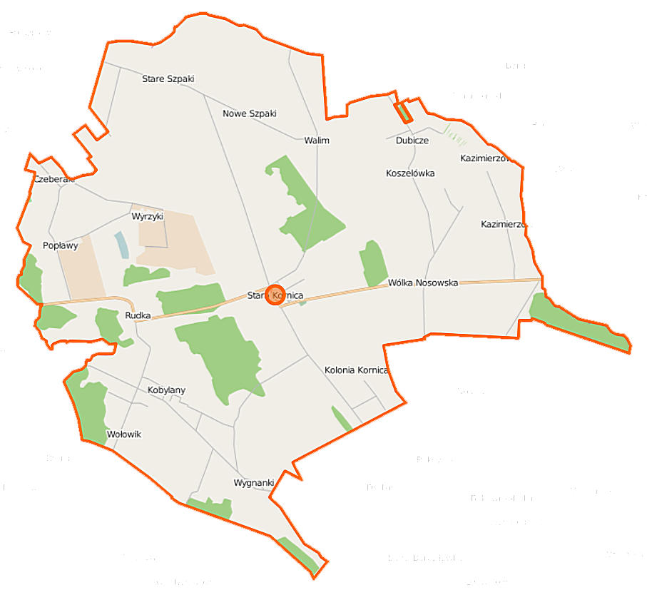 Map of Gmina Stara Kornica, Poland This map of Stara Kornica (gmina) was created from OpenStreetMap project data, collected by the community. This map may be incomplete, and may contain errors. Don't rely solely on it for navigation. Border coordinates52.254122.8292←↕→23.078552.1145